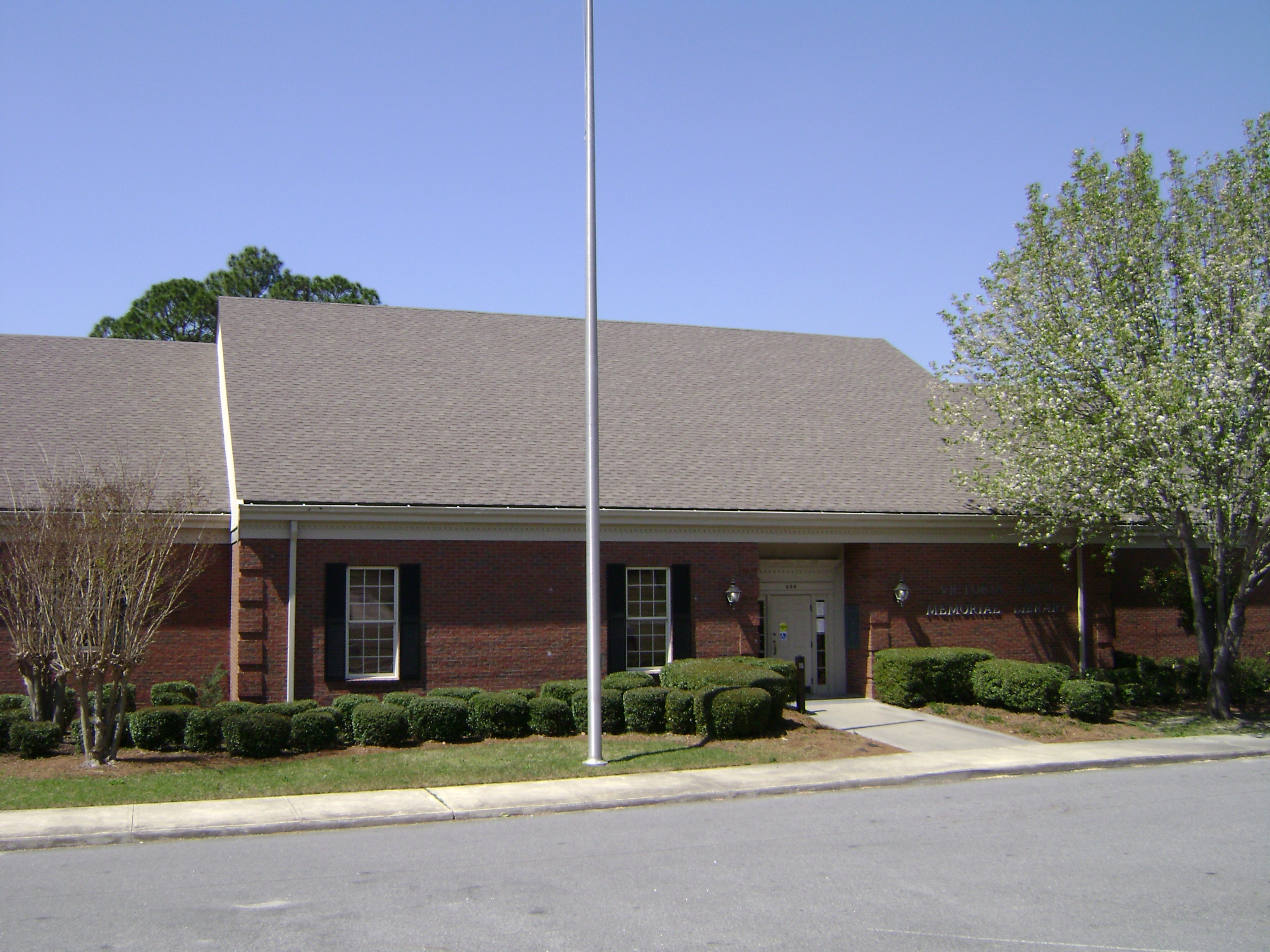 Victoria Evans Memorial Library, Ashburn, Turner County, Georgia